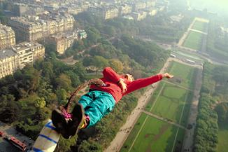 One of the 6 bungee acrobatic jumps from the 2nd floor of the Eiffel Tower by Thierry Devaux.